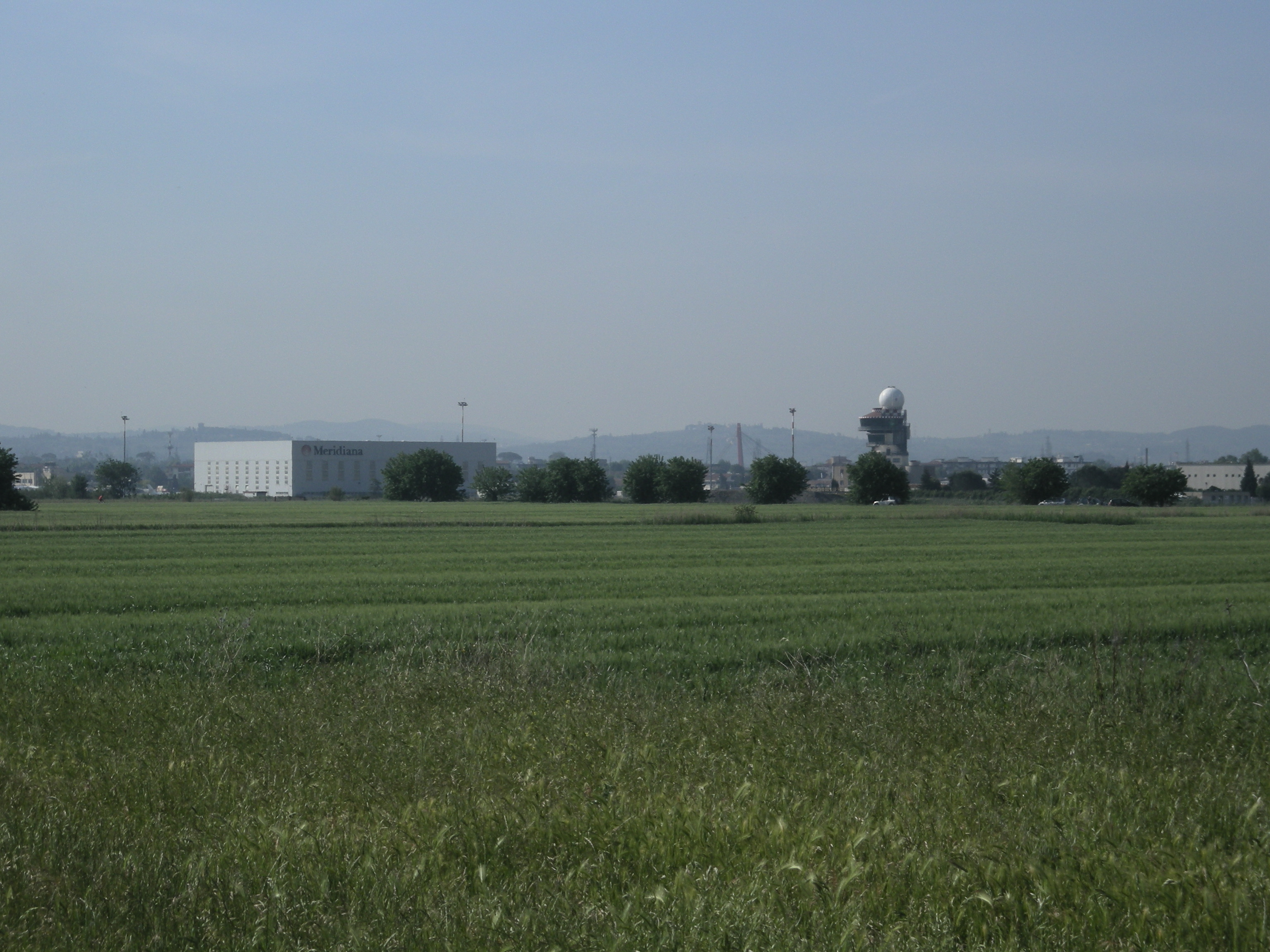 "Amerigo Vespucci" Airport - Florence